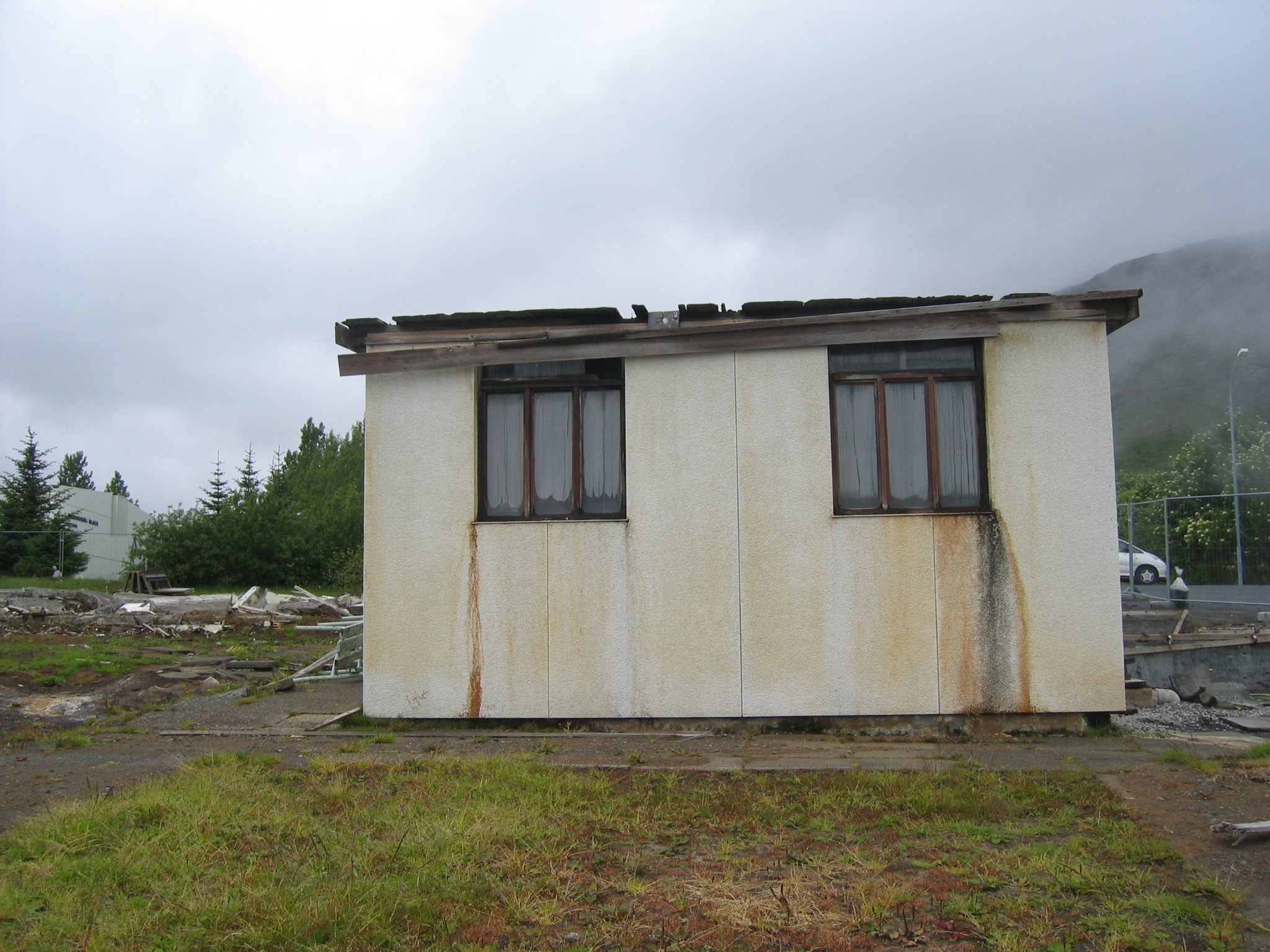 Old steam bath with natural hot spring at Laugarvatn lake in Iceland